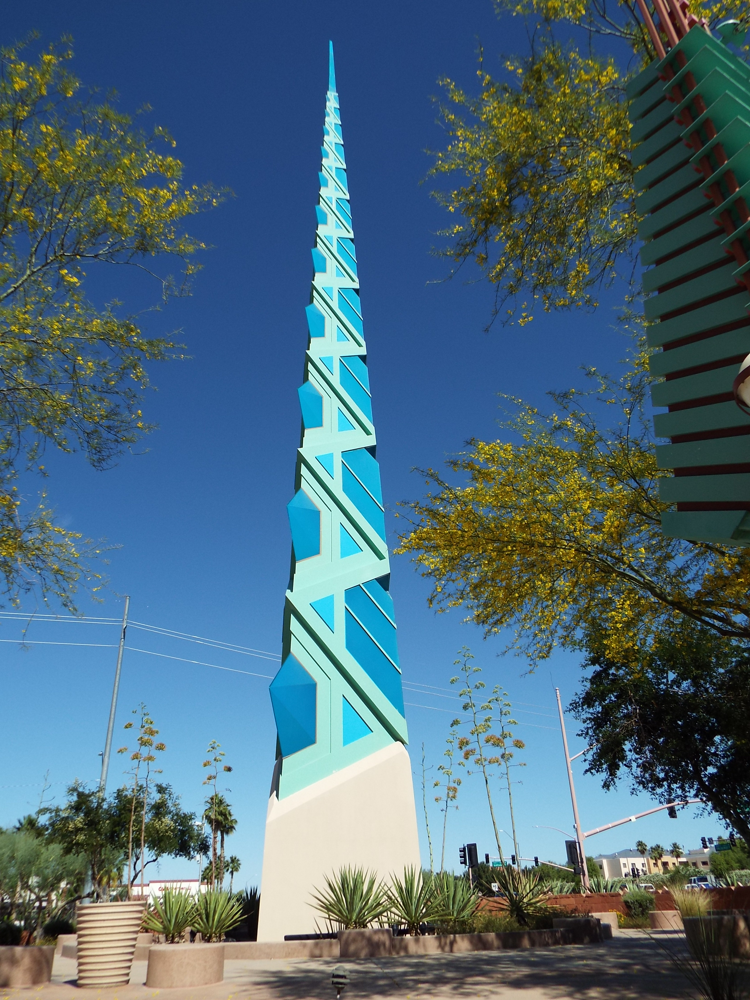 The Scottsdale Spire, located in the southeast corner of Bell and Scottsdale Avenues in Scottsdale, Arizona, was an Arizona State Capital Project designed by Frank Lloyd Wright. Its construction began in 1957, but due to Wrights death, it wasn’t until 2007, that it was adopted and finished by Taliesin Architects.